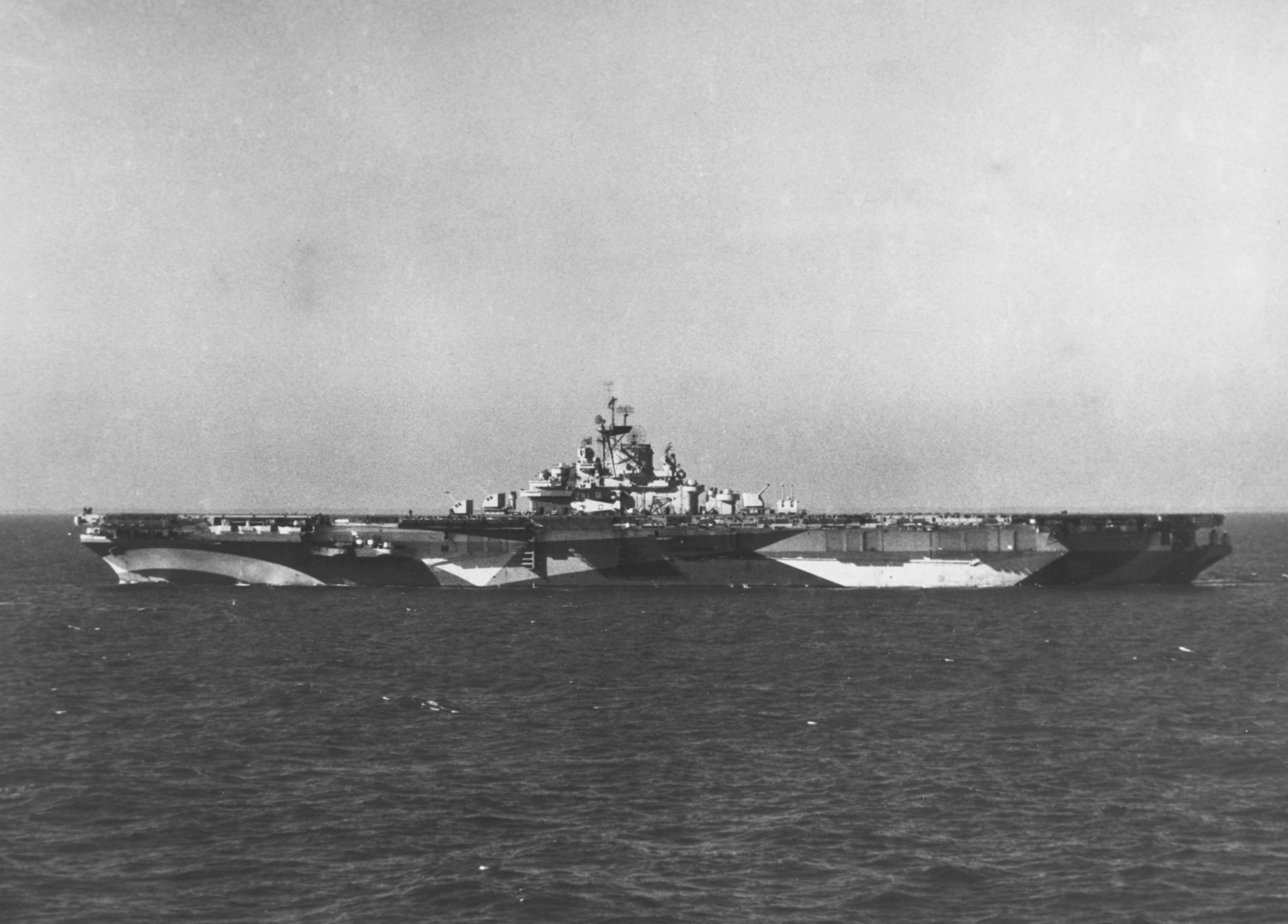 The U.S. Navy aircraft carrier USS Randolph (CV-15) in the Chesapeake Bay area during her shakedown period, 12 November 1944. She is wearing camouflage Measure 32 Design 17a. Photographed from USS Charger (CVE-30).